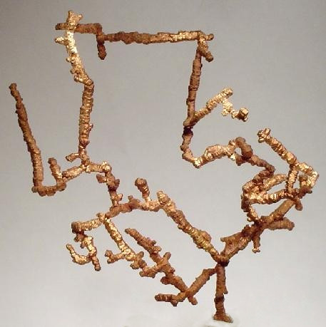 Copper Locality: White Pine Mine, White Pine, Ontonagon County, Michigan, USA (Locality at ) A BEAUTIFULLY ARTISTIC sculpture of lustrous, elongated, spinel-twinned copper crystals from the famous White Pine Mine of Michigan. About as good as it gets from the White Pine Mine, which closed in 1995. Ex Marty Lewadny Collection 4.2 x 3.2 x 1.5 cm